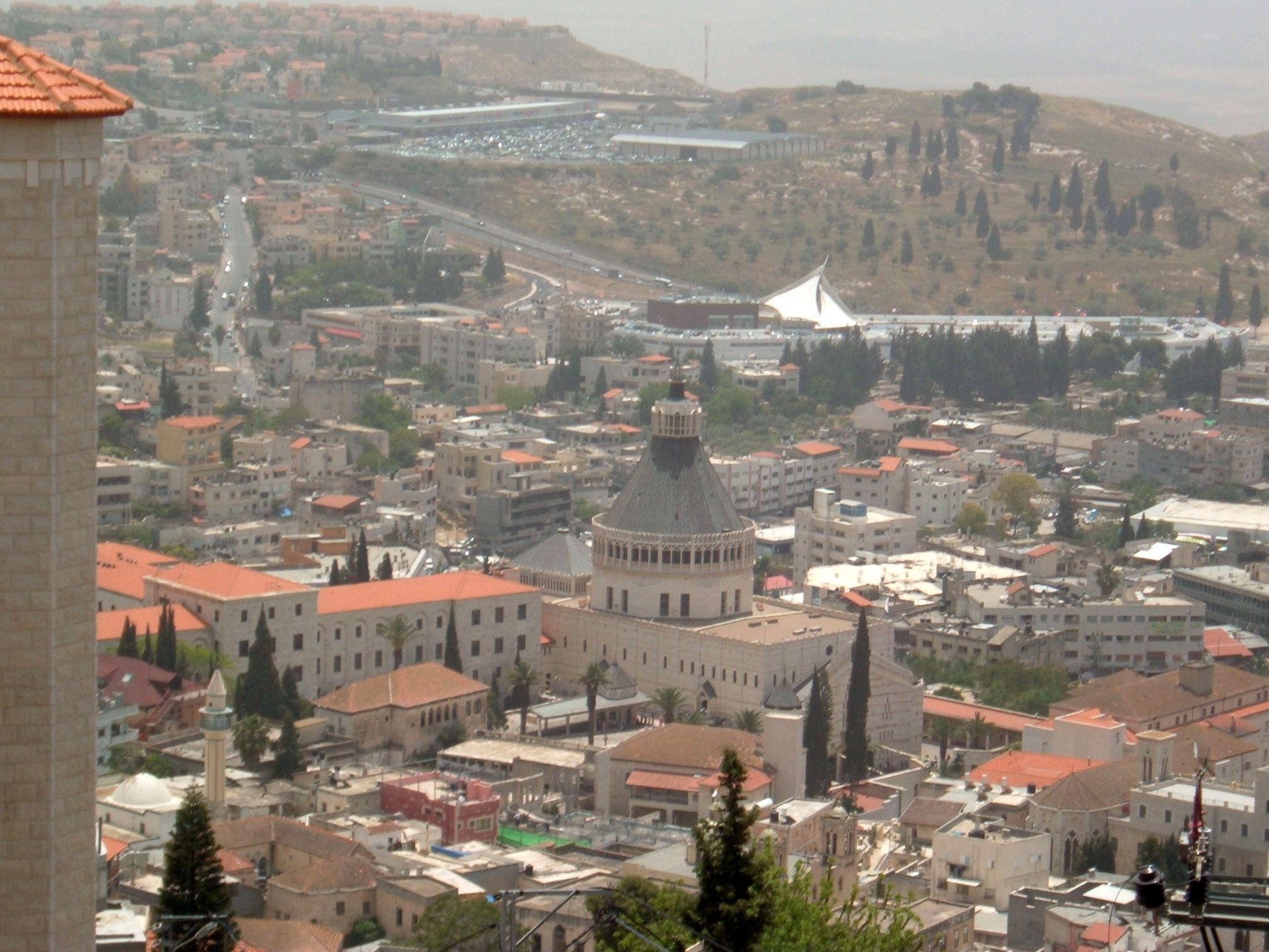 annuciation church as seen from Salesian church כנסיית הבשורה כפי שהיאin nazareth נראית מהכנסייה הסלזיאנית בנצרת